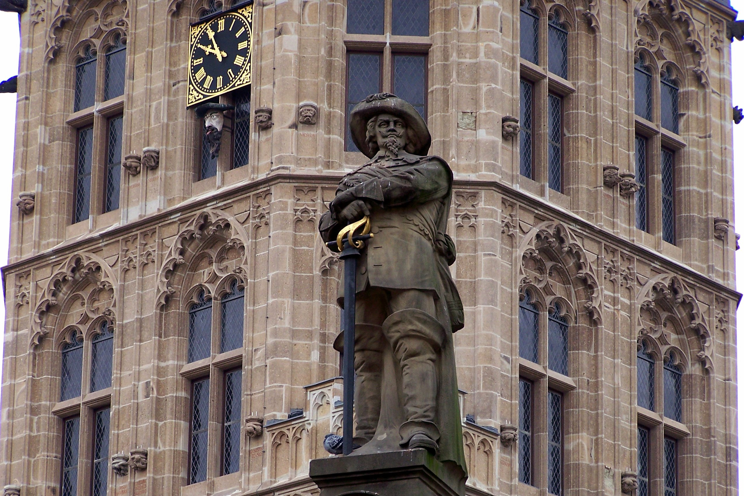 Between the years of 1135 and 1152 the guildhall of Cologne was mentioned for the first in documents as the ‚Haus der Bürger’. The late-Gothic tower, 61 metres high, was built up between 1407 -1414.